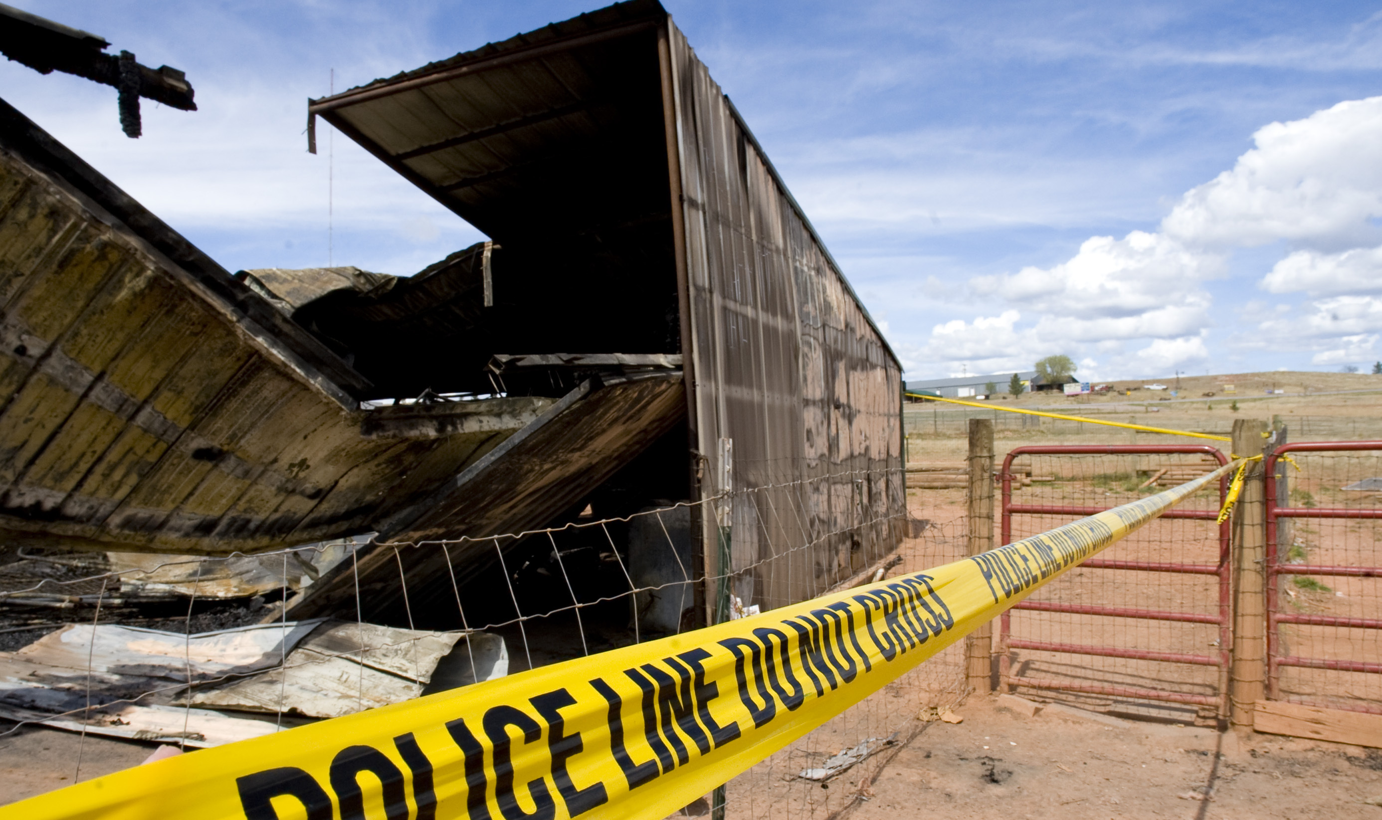 Police tape marks the perimeter of the Battle Mountain Humane Society that burned down in Hot Springs S.D., April 13, 2012. Eleven dogs died in the fire at the privately-owned animal shelter which has been operating for the last five years.